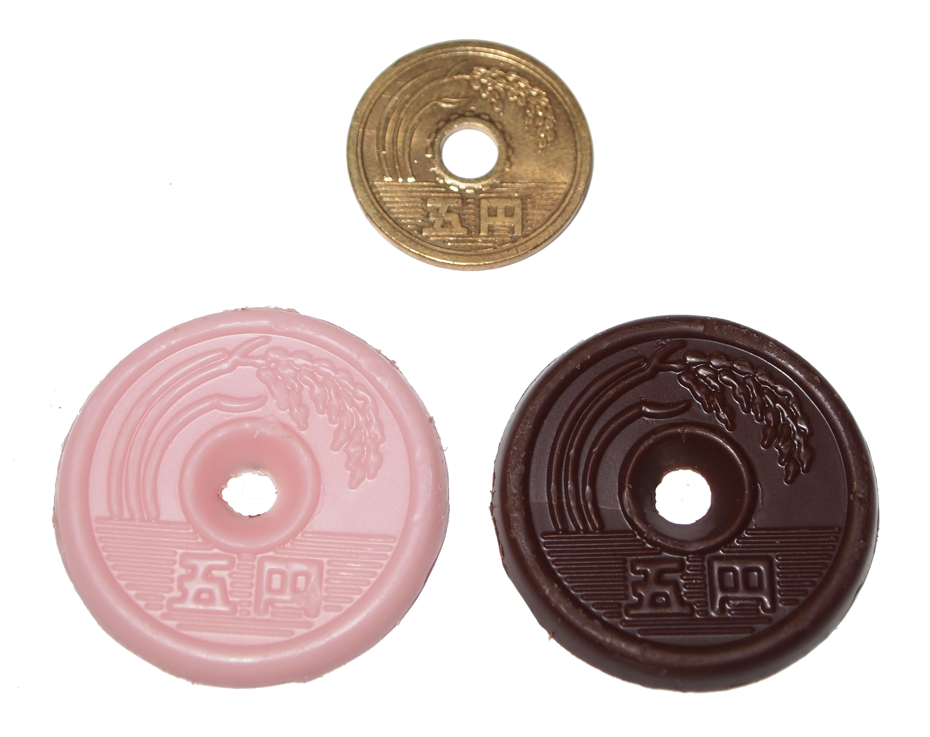 Content of Goenga-Aruyo chocolate double, compare with 5 Yen coin.